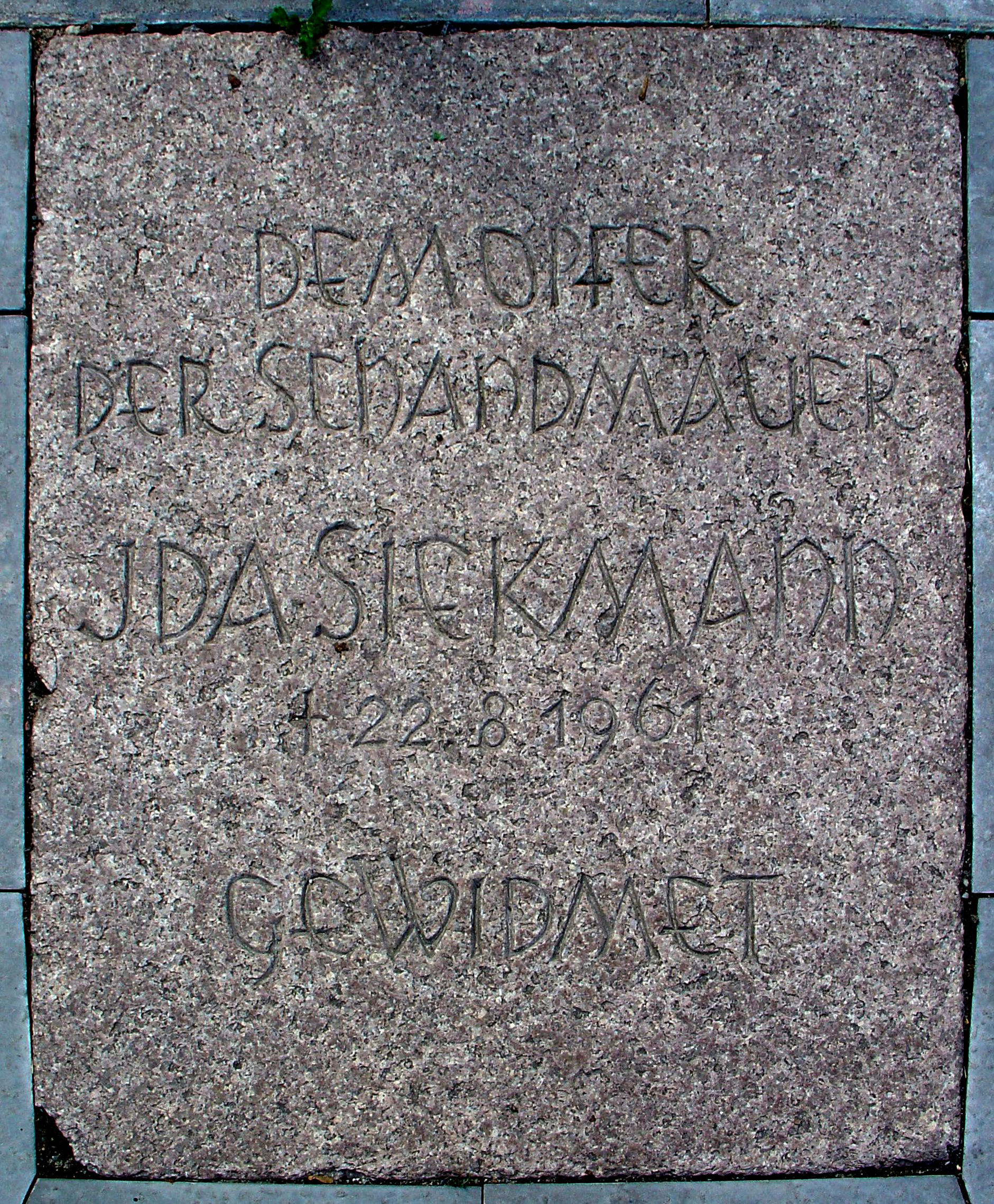 Monument for the Berlin Wall victim Ida Siekmann; Berlin, Bernauer Strasse. The text says: "Dedicated to the victim of the wall of shame, Ida Siekmann, † 22-Aug-1961".